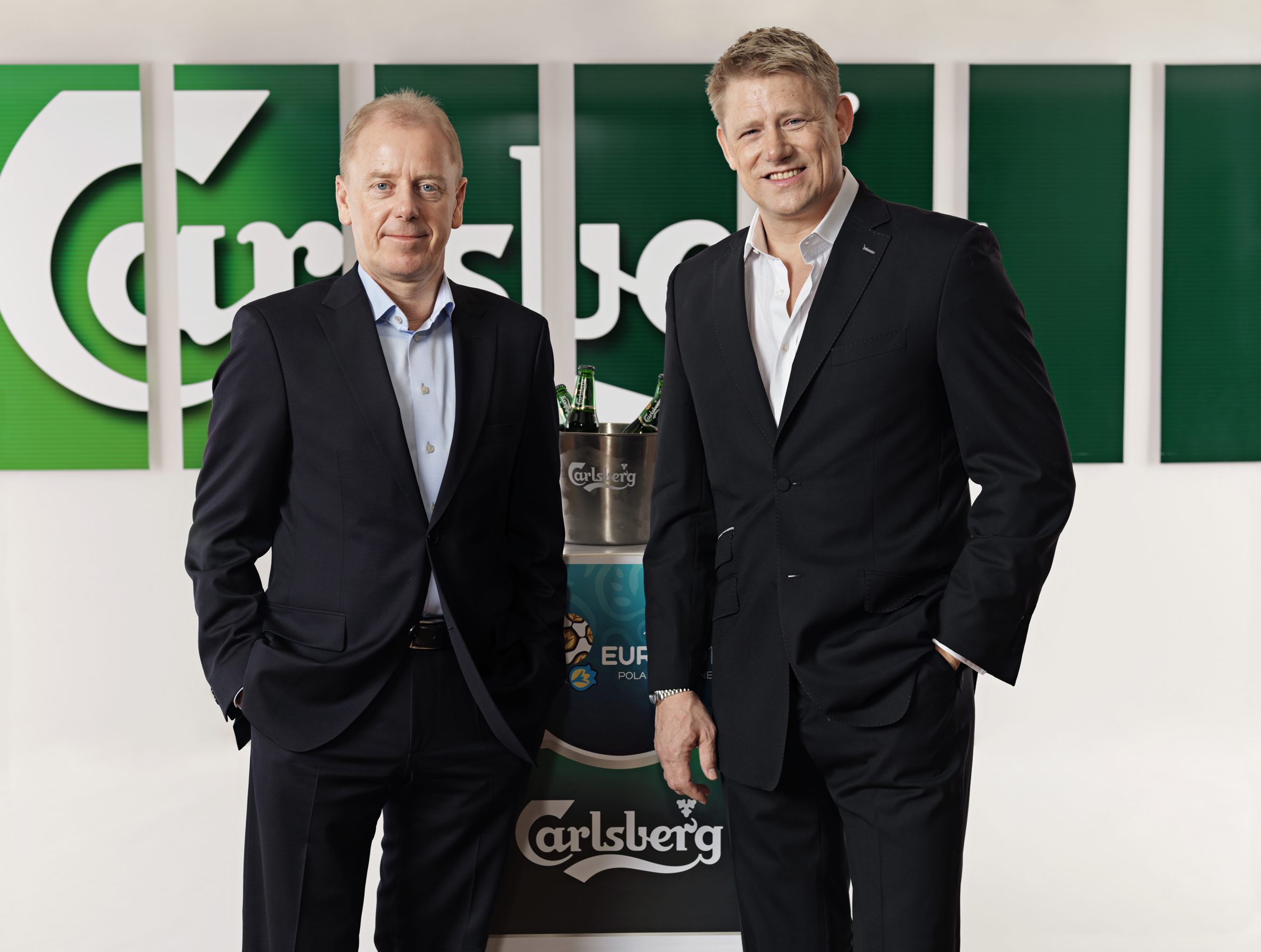 Jørgen Buhl Rasmussen (left), CEO of Carlsberg Group and former goalkeeper Peter Schmeichel.